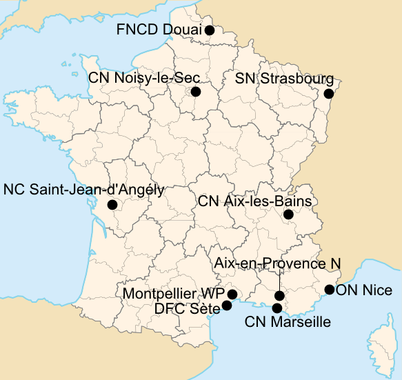 Map locating water polo clubs playing the Elite France Championship season 2009-2010.